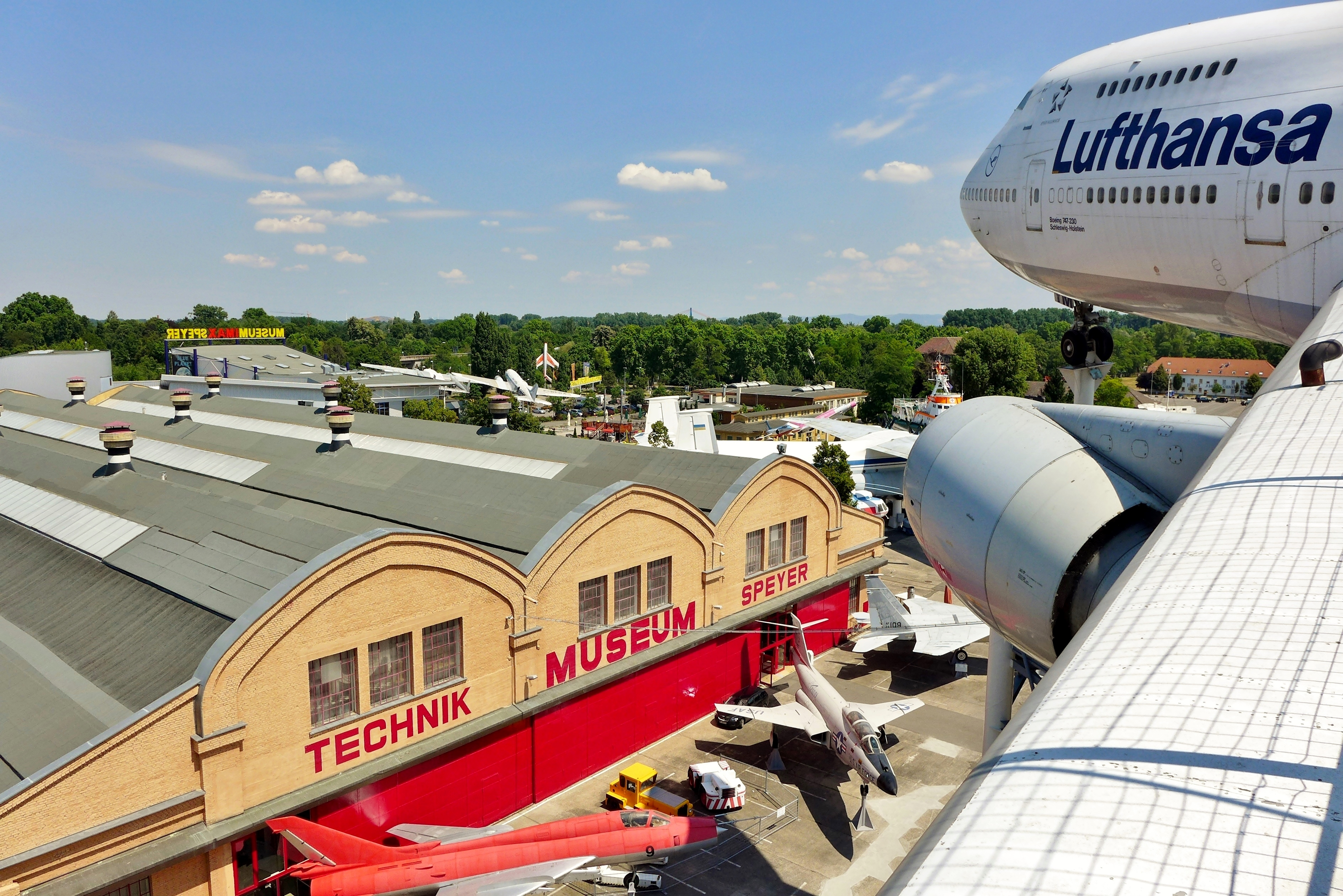 Lufthansa Boeing 747-230 D-ABYM on display at Technik Museum Speyer.